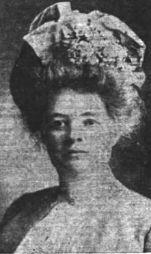 A young white woman wearing her hair in a high bouffant arrangement with flowers and ribbons.